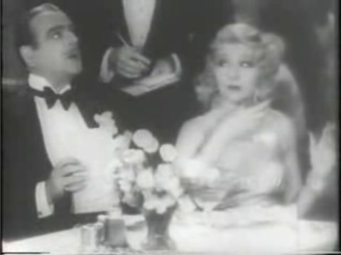 Screenshot of Ina Claire from the film The Greeks Had a Word for Them (also known as Three Broadway Girls).